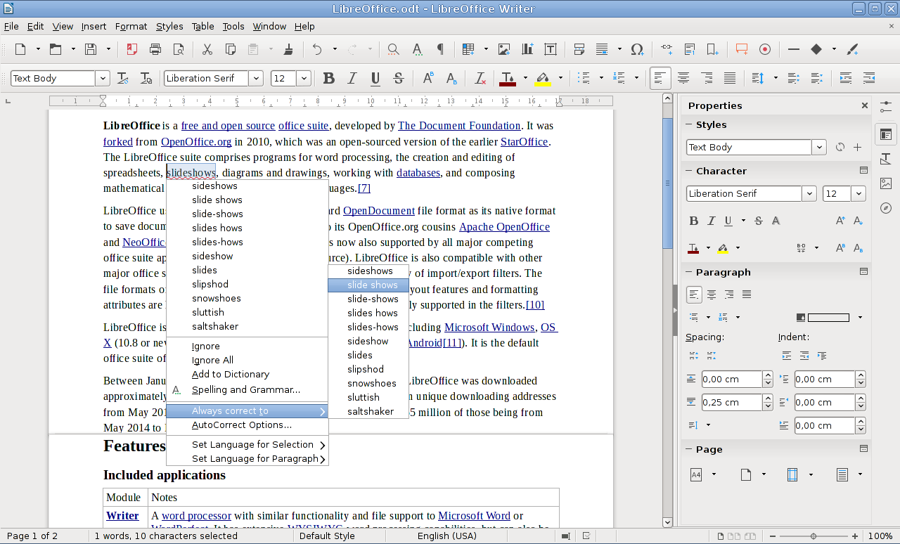 LibreOffice Writer 5.1.0.2 showing several new features: A separate Styles menu; The flat 'Breeze' icon set (default is Tango); Ruler items are in gray colour so as to allow better concentration on the document at hand; Reorganised sidebar items for text and paragraph properties; Whitespace is set to be hidden (see dividing line just above "Features"); The 'Always correct to' context menu The operating environment is LXDE in Knoppix 7.2, but LibreOffice was downloaded and installed separately. The default size of toolbar buttons is large, as seen in the screenshot; though most people prefer small toolbar buttons, so that they would be visible (discoverable) in non-HD resolutions. For page size, margins, the ruler, and measurements in the Sidebar, the metric system and EU standards are used, as defined by the selected Estonian locale. "English (USA)" is the language set for the document. For some reason, Writer version 5.1.0.2 could not load images, so these were not included in the sample document. Content was copied paragraph-by-paragraph, since "as is"-visual copying of whole (X)HTML contents into Writer is prohibitively resource-intensive because of the complexity of source material.